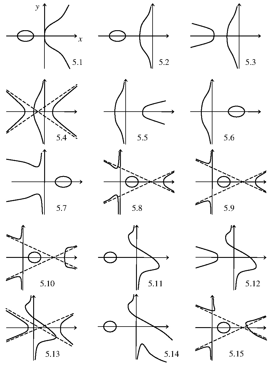 Classes from cubic with oval